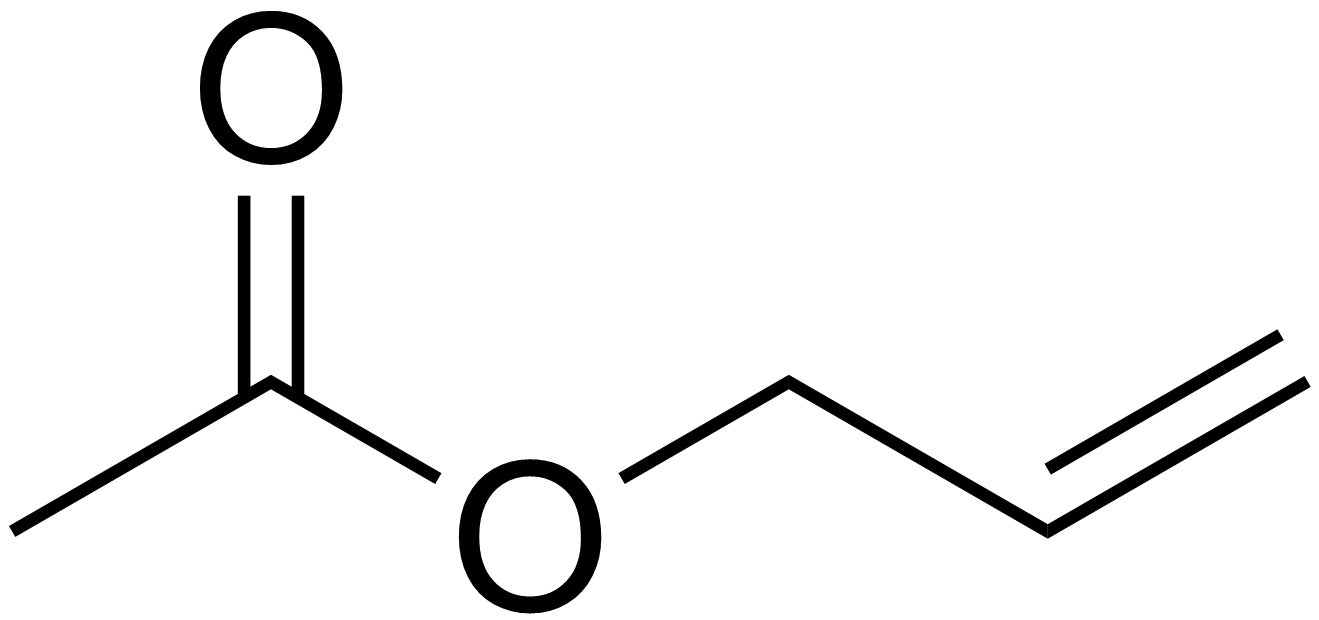 Chemical Structure of Allyl Acetate